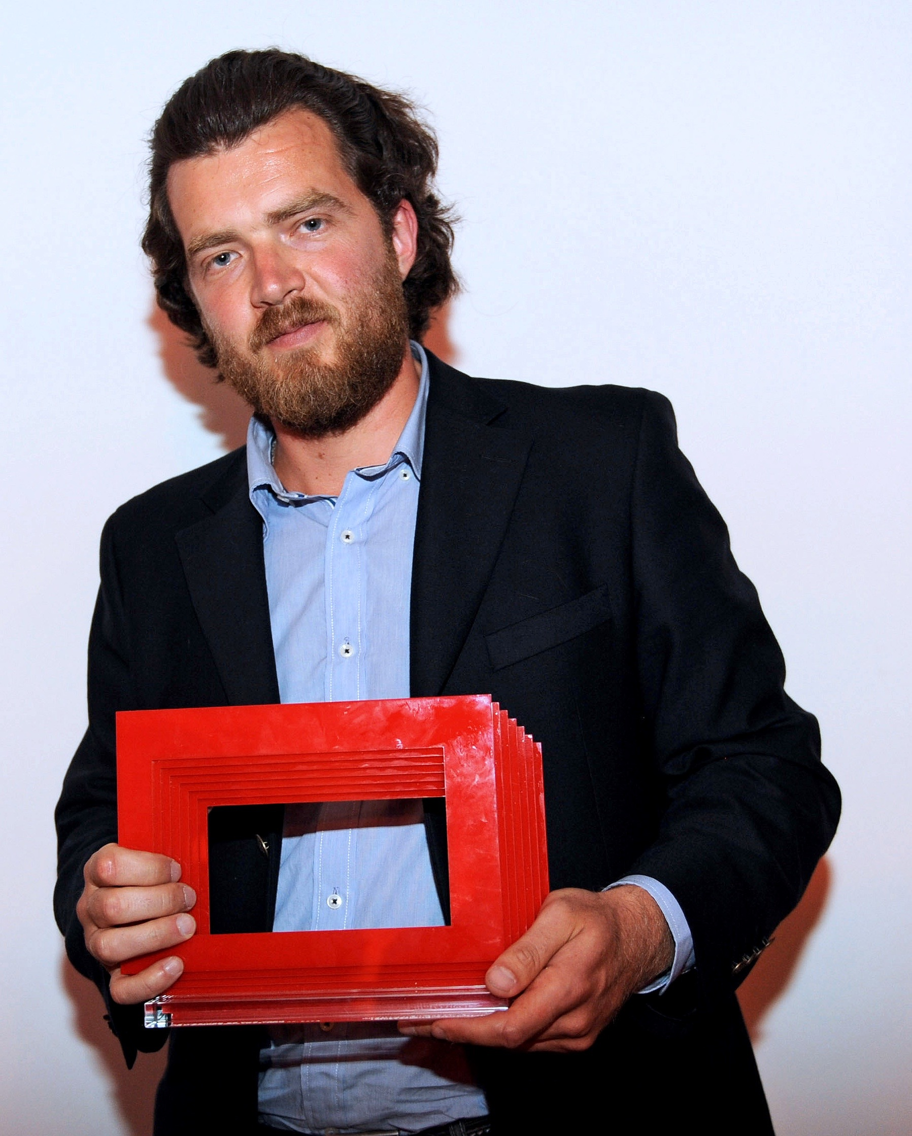 Director Dimitry Rudakov, winner Newcomer of the Year - Main Award of Mannheim-Heidelberg